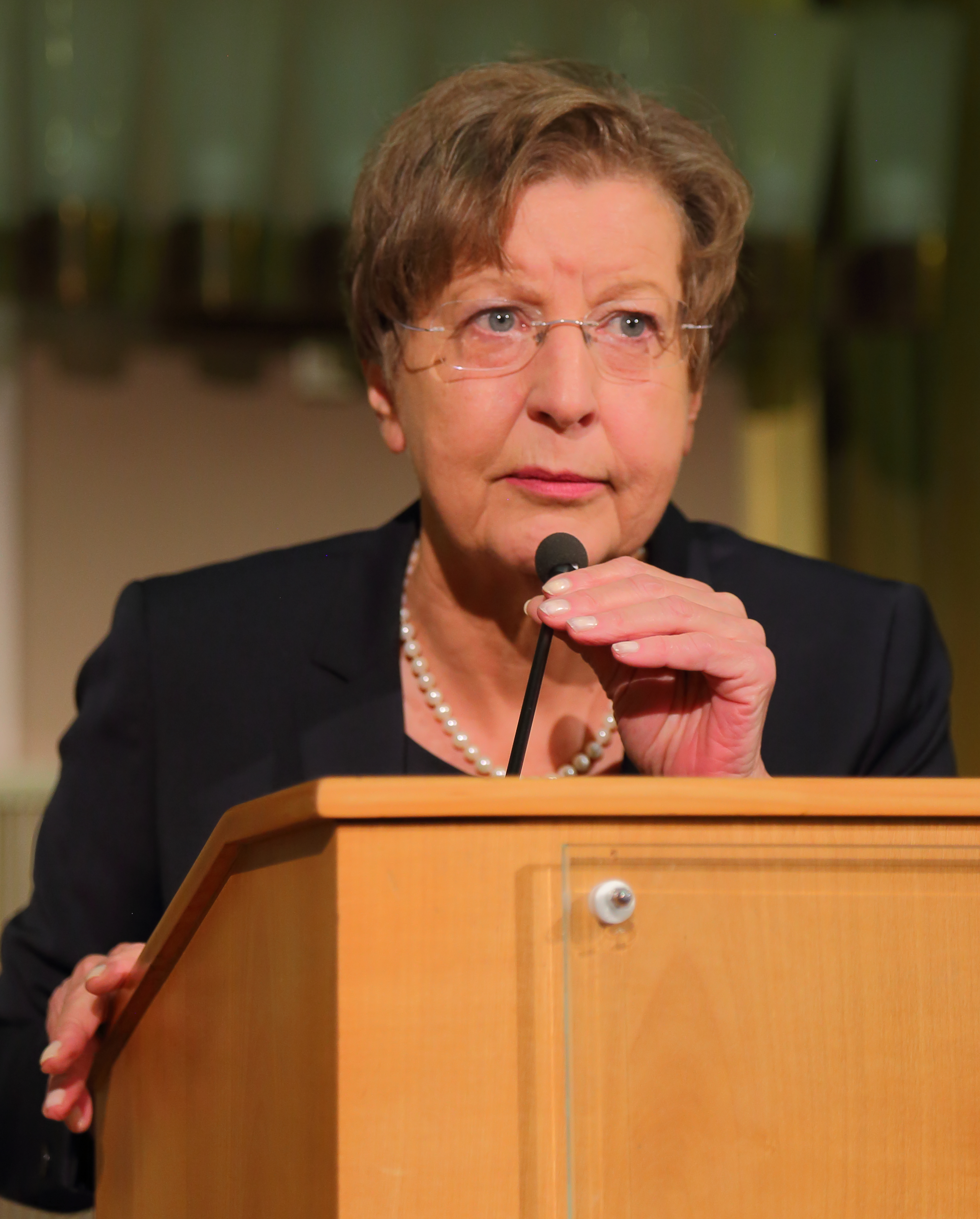 Change of the Rectorate ceremony at the auditorium of the University of Münster (Westfälische Wilhelms-Universität Münster) in Münster, North Rhine-Westphalia, Germany. Farewell celebration for the former rectorate, here retired Rector Professor Dr. Ursula Nelles